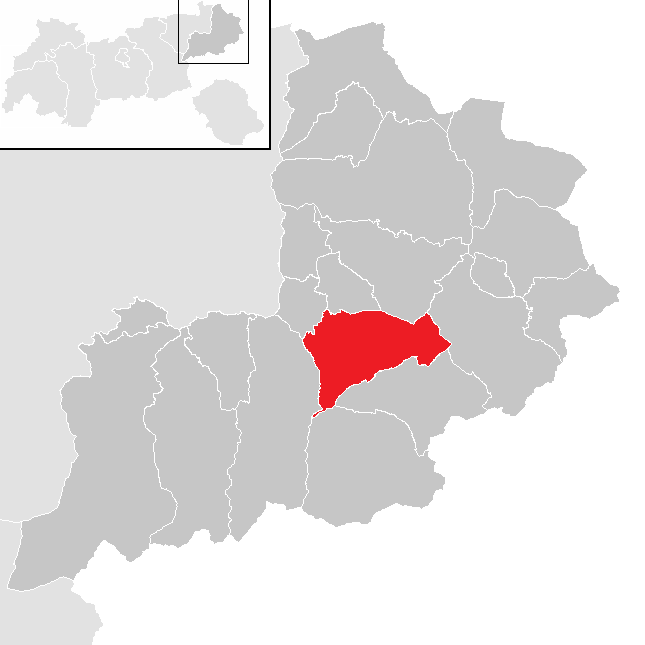 District Kitzbühel